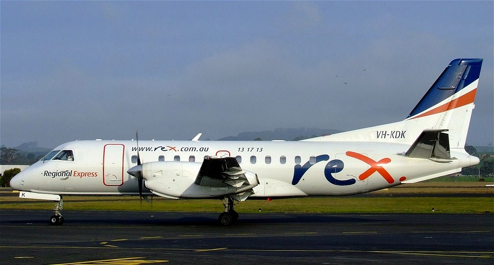 Saab 340A VH-KDK August 27, 2007. Burnie-Wynyard Airport. This was the first Saab 340 delivered to Australia.